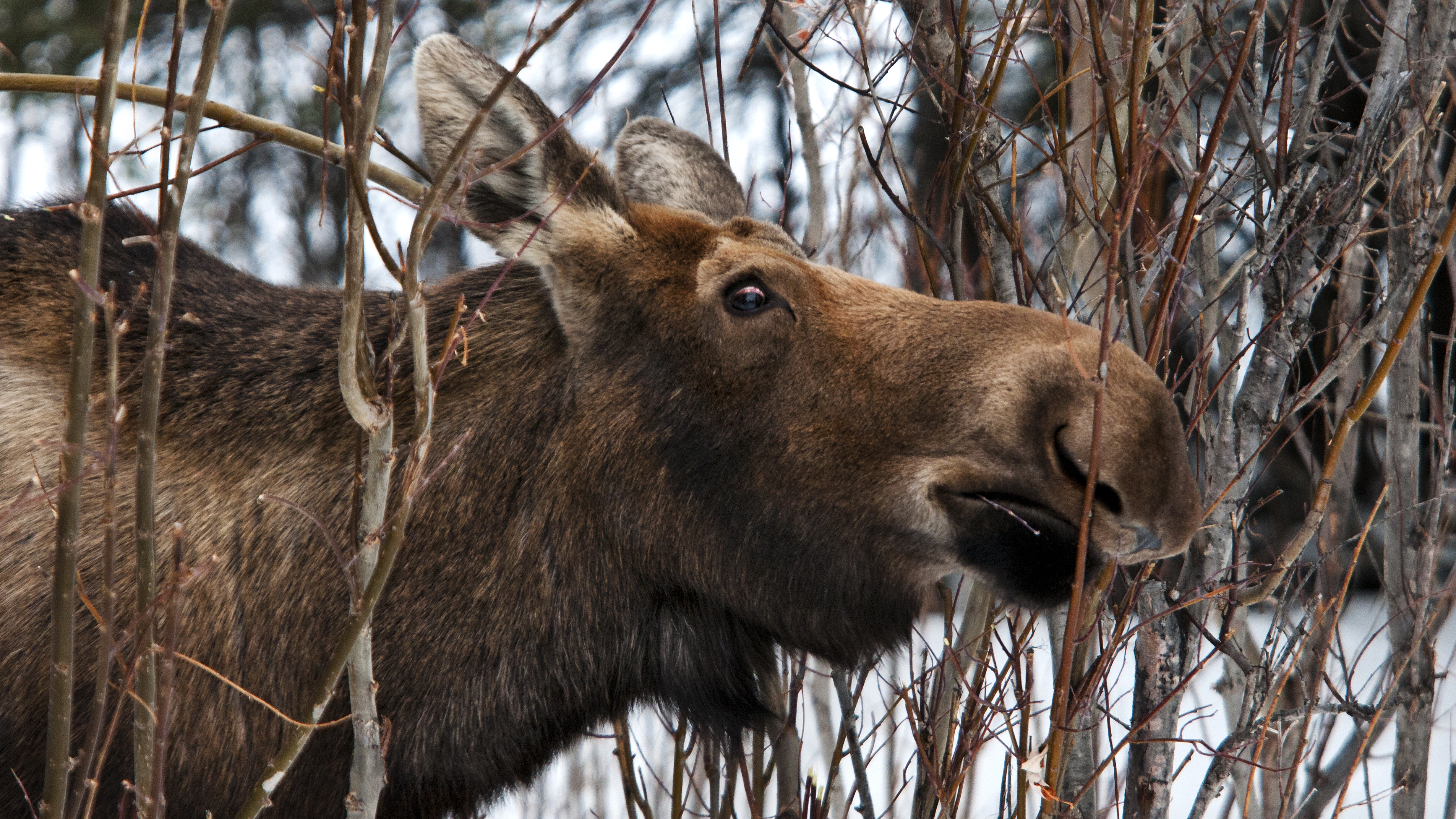 NPS Photo Tim Rains Check out the official Denali Facebook, Twitter and YouTube pages: Like us on Facebook: Follow us on Twitter: Denali YouTube Channel